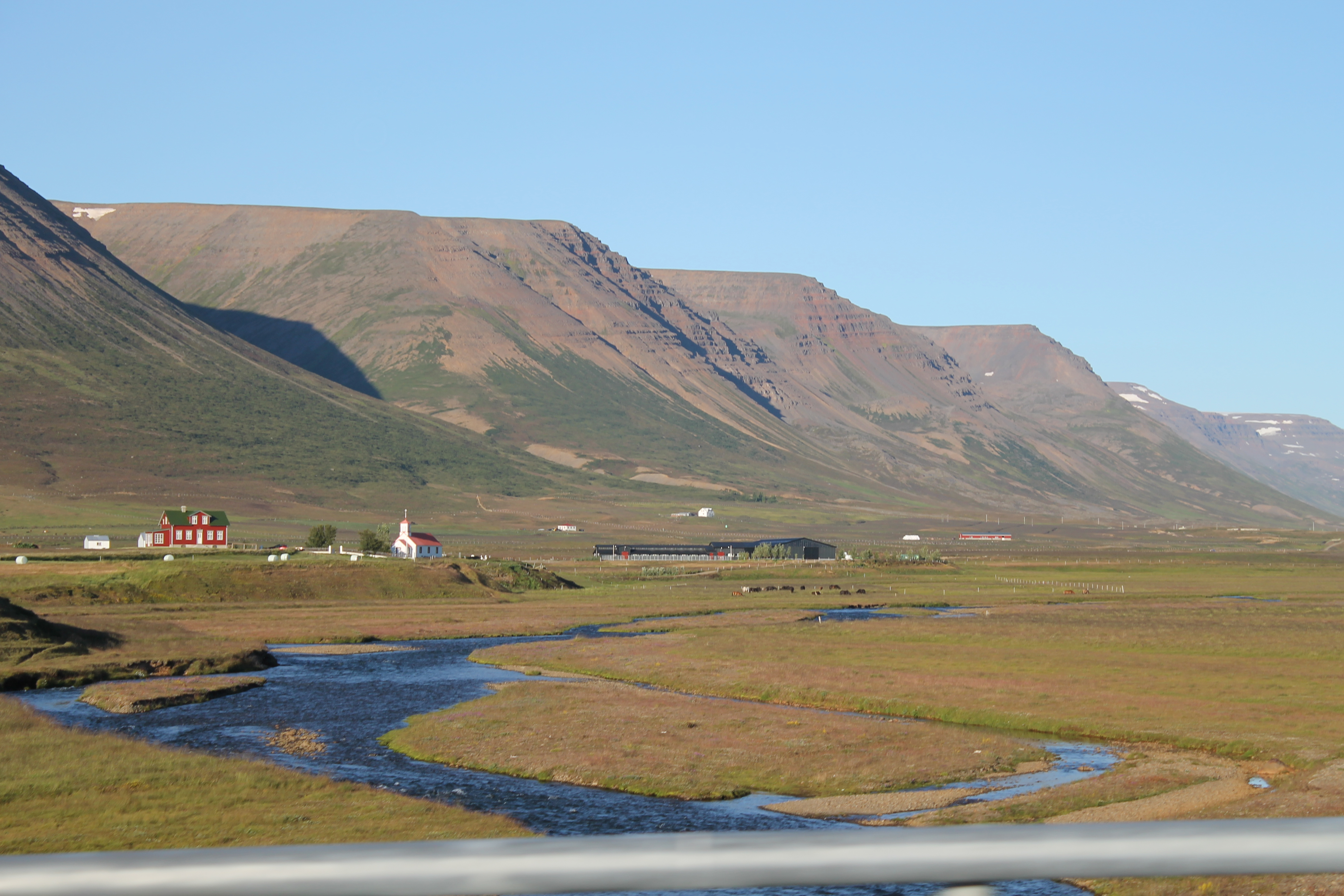 Hofsá river, near Hofsós, Skagafjörður, Iceland.